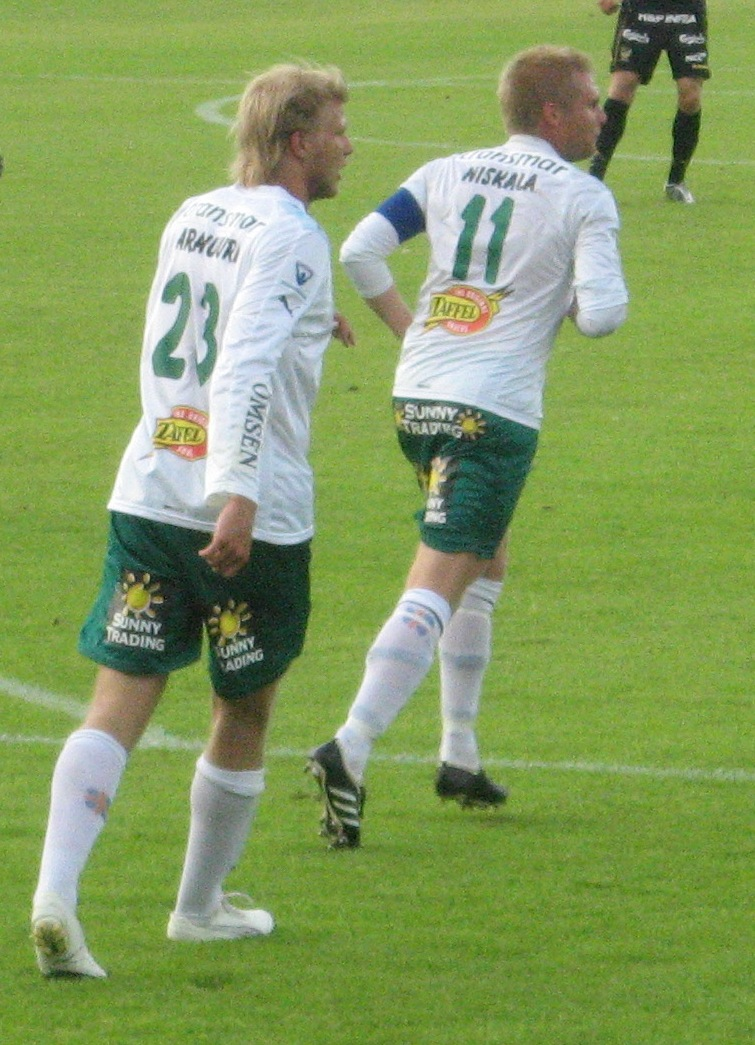 Paulus Arajuuri and Mika Niskala on the pitch against FC Honka in Tapiola